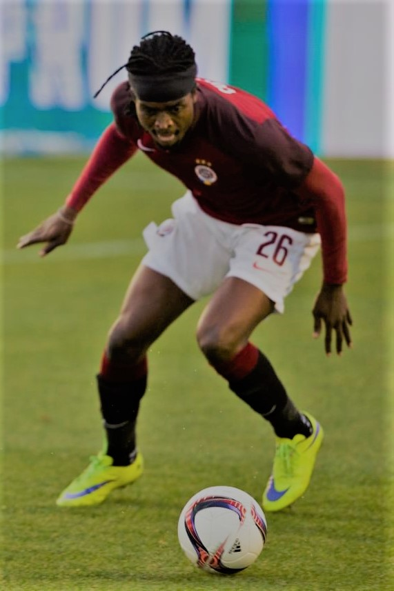 Costa Nhamoinesu